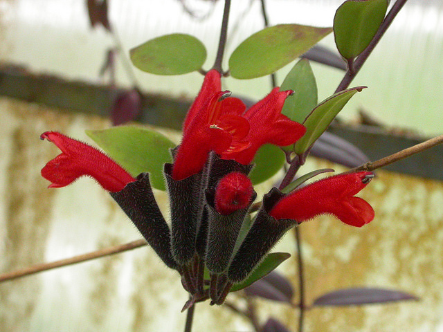 Flowering Aeschynanthus pulcher, Teplice Botanical Garden, Czech Republic